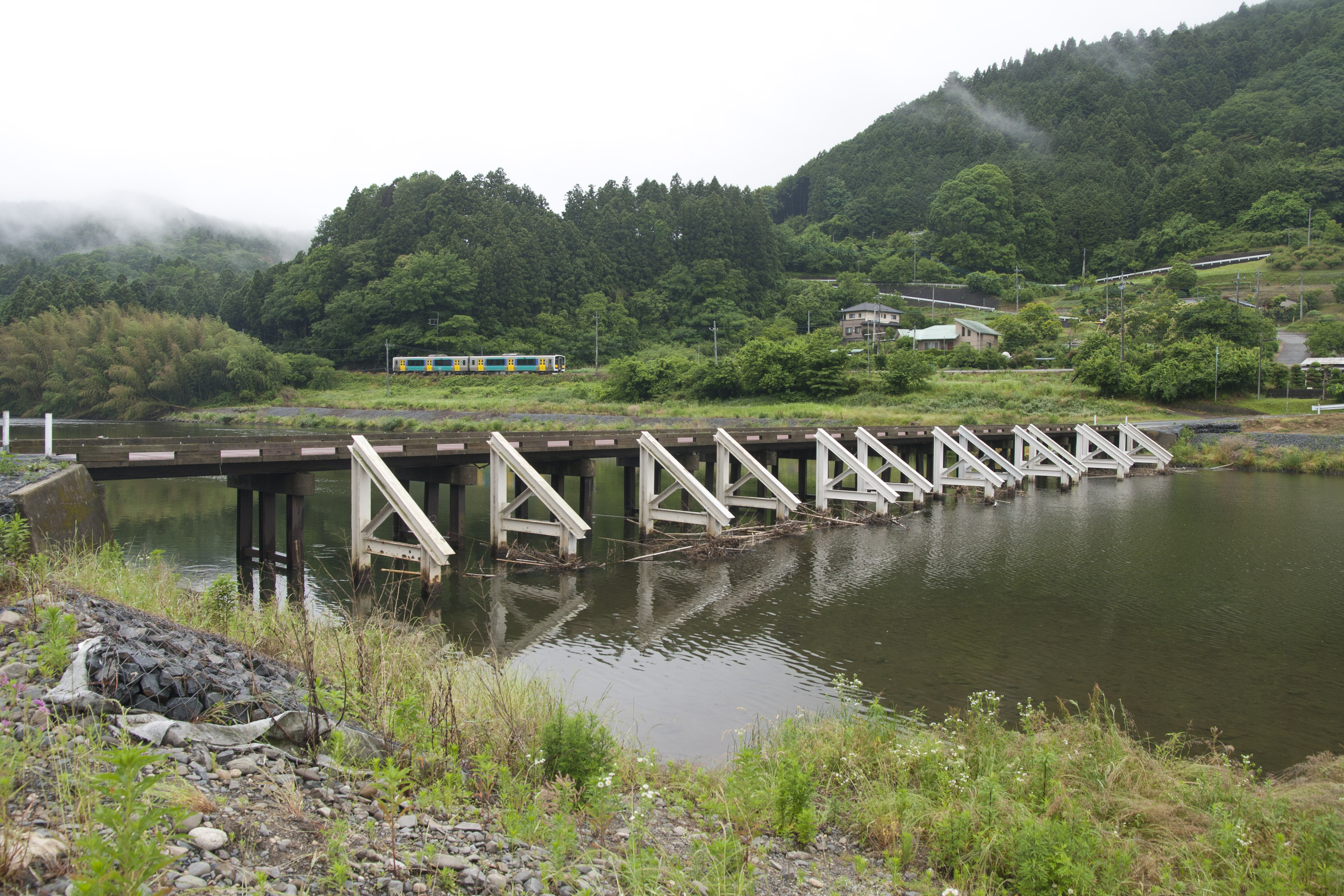 Hirayama Bridge over the Kuji River in Hitachiomiya City, Ibaraki Prefecture, Japan